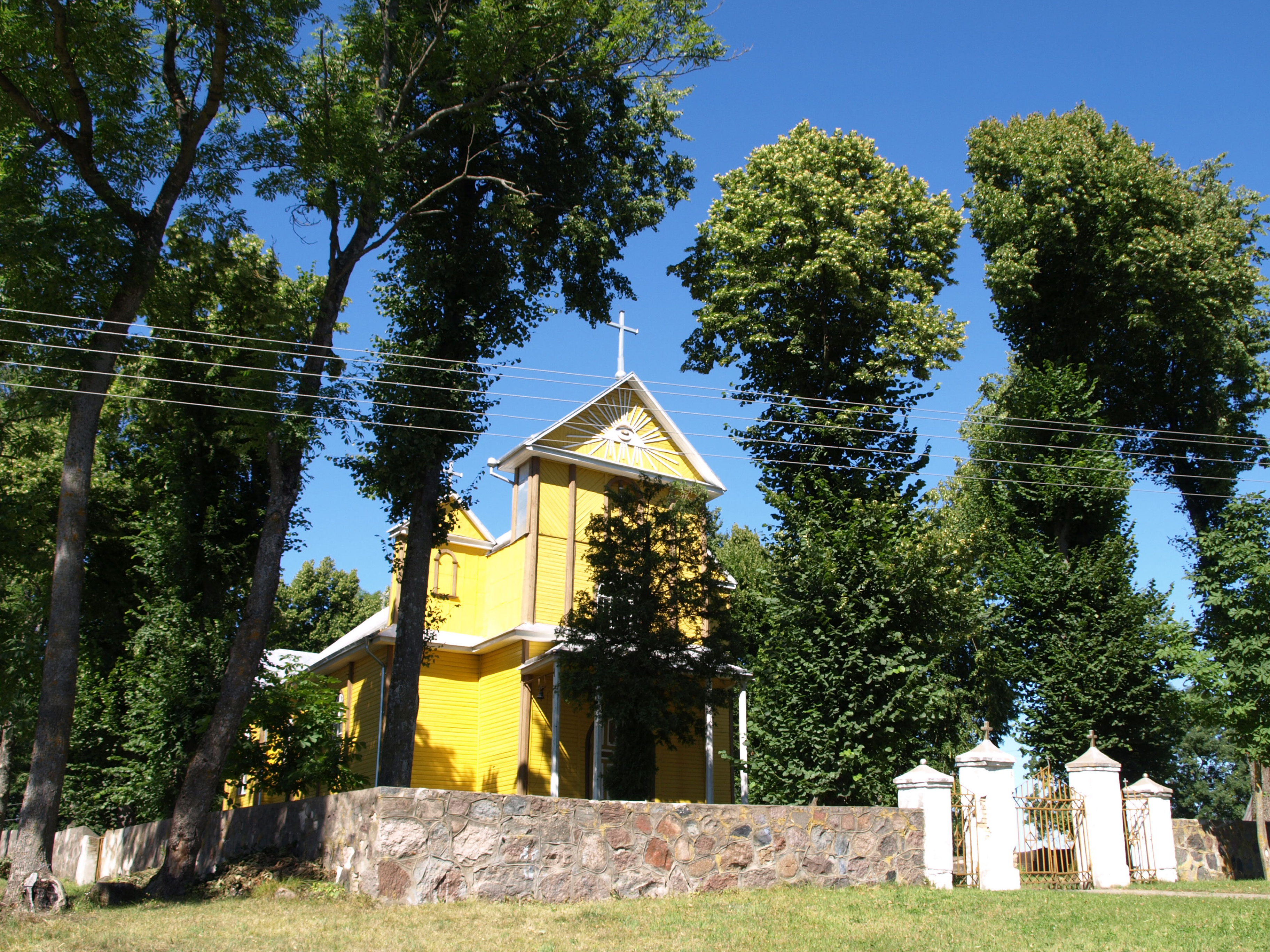 Eitminiškės church, Vilnius district, Lithuania